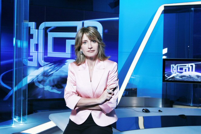 Tiziana Ferrario at work